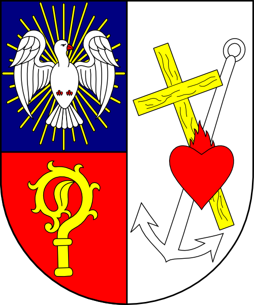 Coat of arms (shield only) of Karel Boromejský Hanl von Kirchtreu, bishop of Hradec Králové, Czech Republic (1832 - 1874).